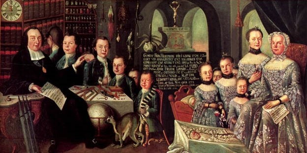 The epitaph of Swedish clergyman and botanist Gustaf Fredrik Hjortberg (1724-1776)